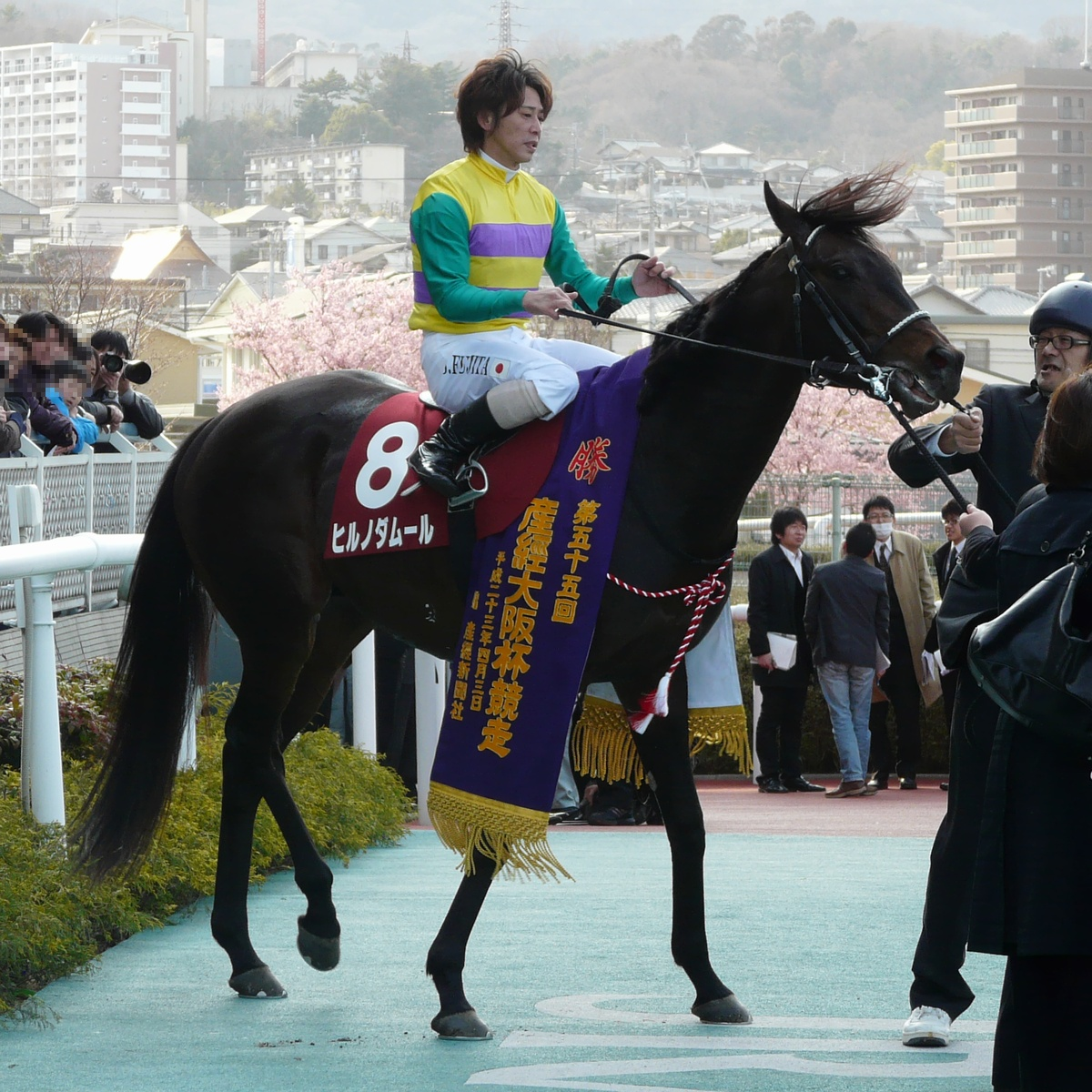 Hiruno-Damour20110403